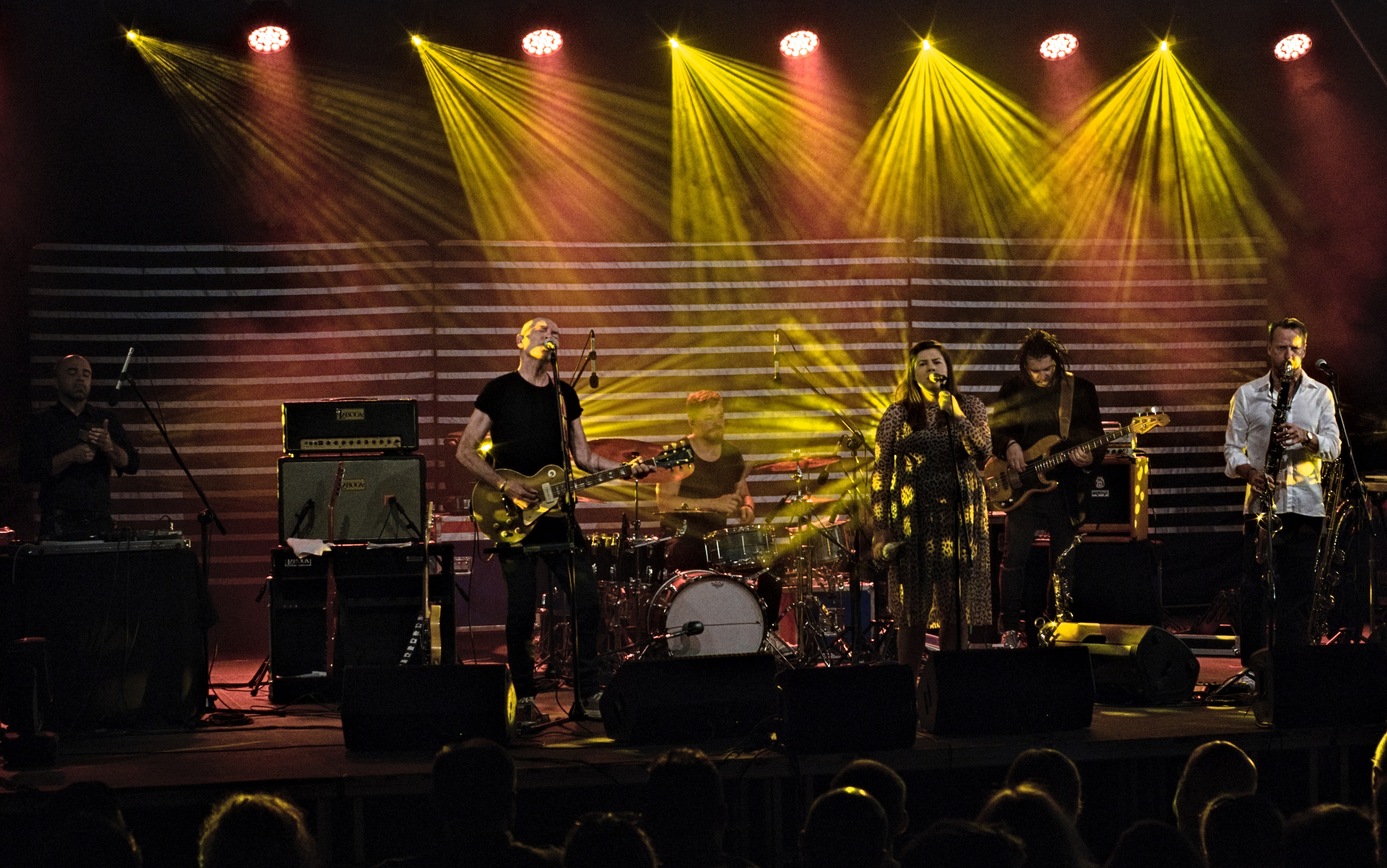 Voo Voo with special guests during concert in Katowice, Poland, 2019, Sejmu Śląskiego square. From the left: Piotr Chołody, Wojciech Waglewski, Michał Bryndal, Monika Borzym, Karim Martusewicz, Mateusz Pospieszalski. Photo taken with permission of Voo Voo manager, Mariusz Dettlaff